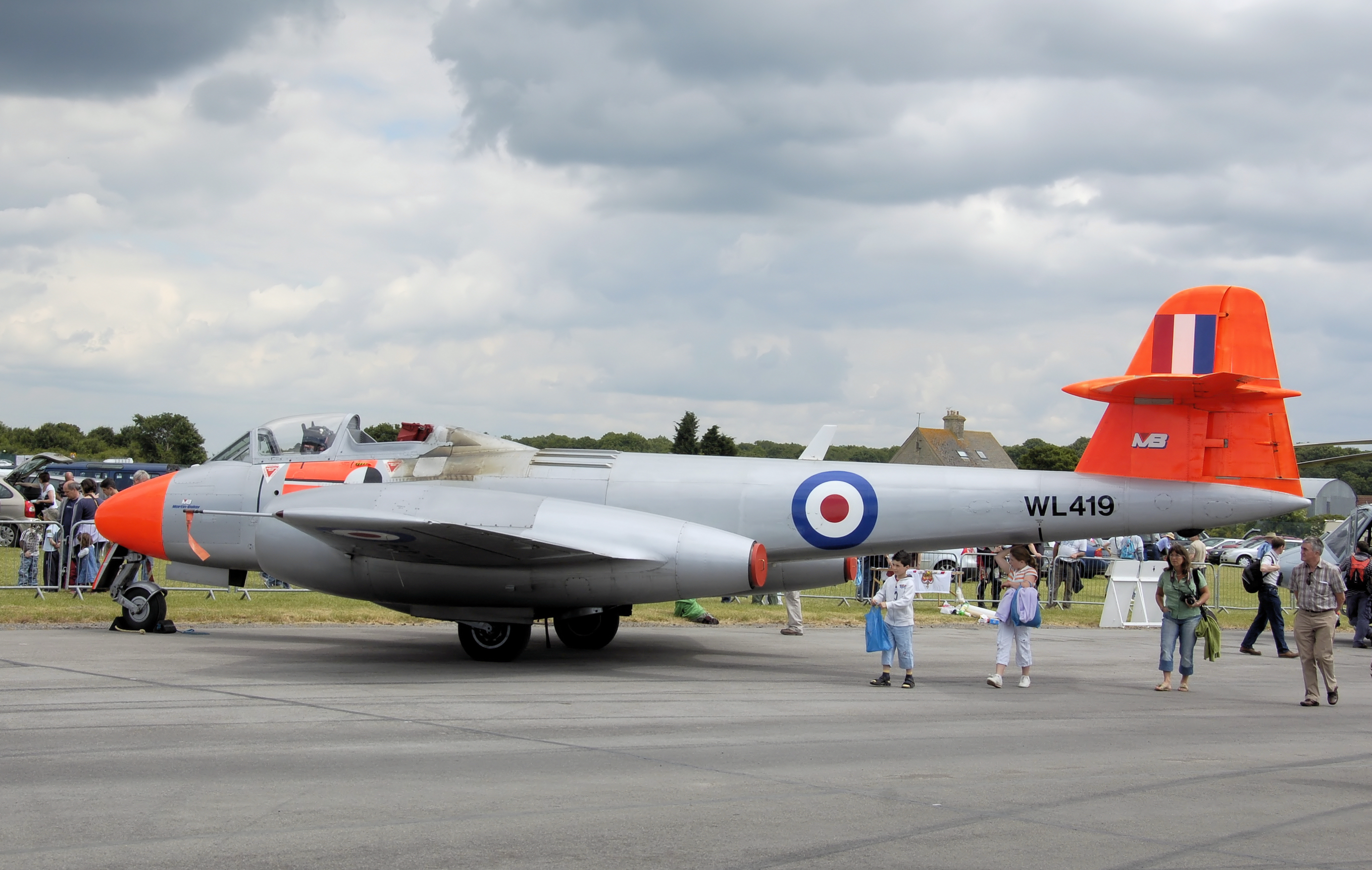 Gloster Meteor WL419 Model T7(modified), an ejection-seat test aircraft owned by Martin Baker Company. On static display at the 2008 Air Day, Kemble Airport, Gloucestershire, England. There are modifications to the rear cockpit where the ejection seat is fitted (in particular, no canopy).